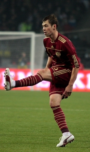 Russia vs Slovenia World Cup 2010 Qualification, 2009-11-14